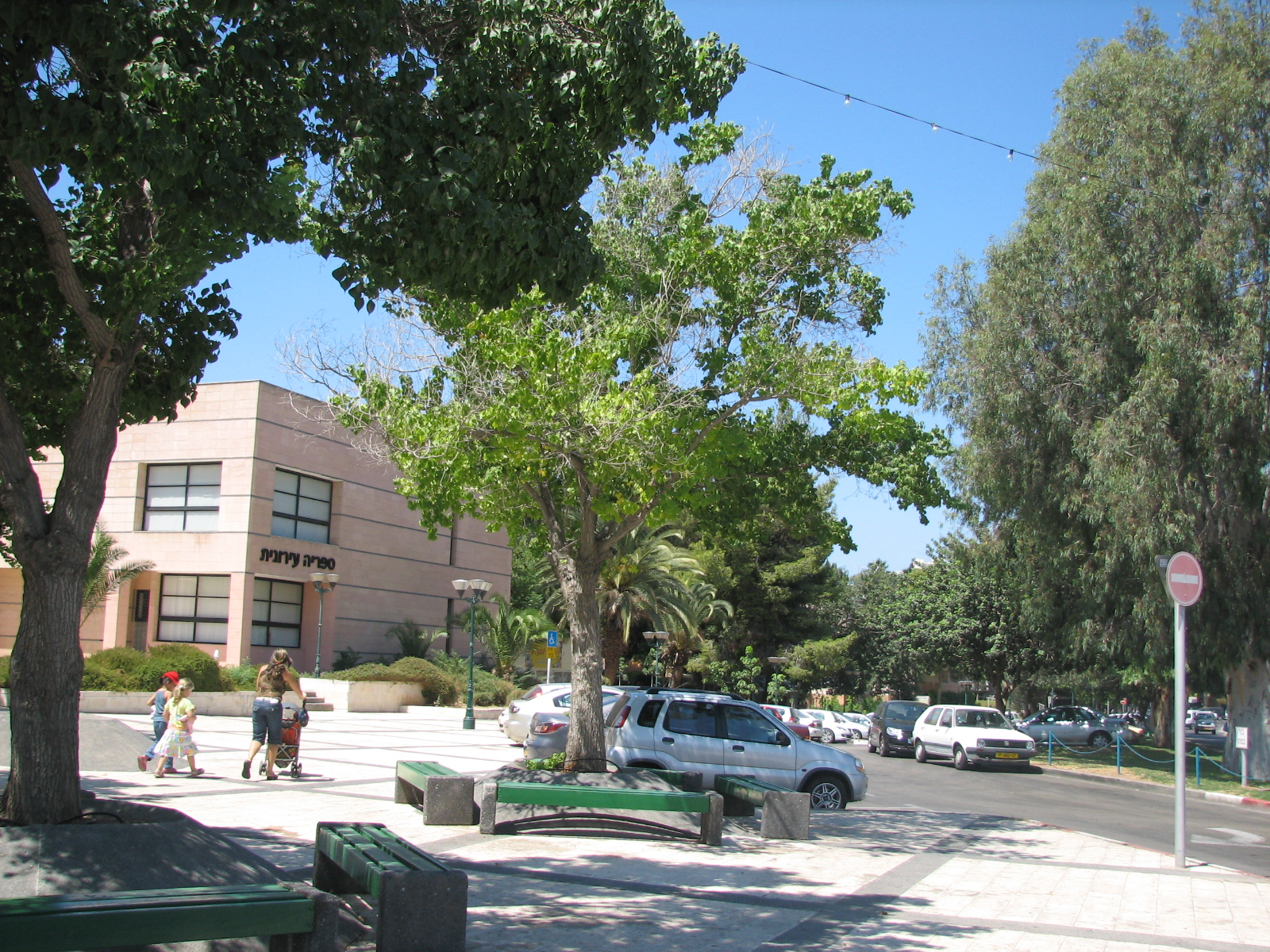 The library - Tel Hanan neighborhood in the city Nesher